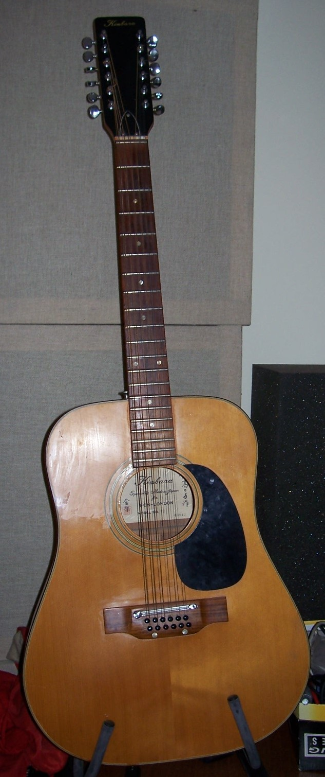 A twelve-stringed Kimbara model.